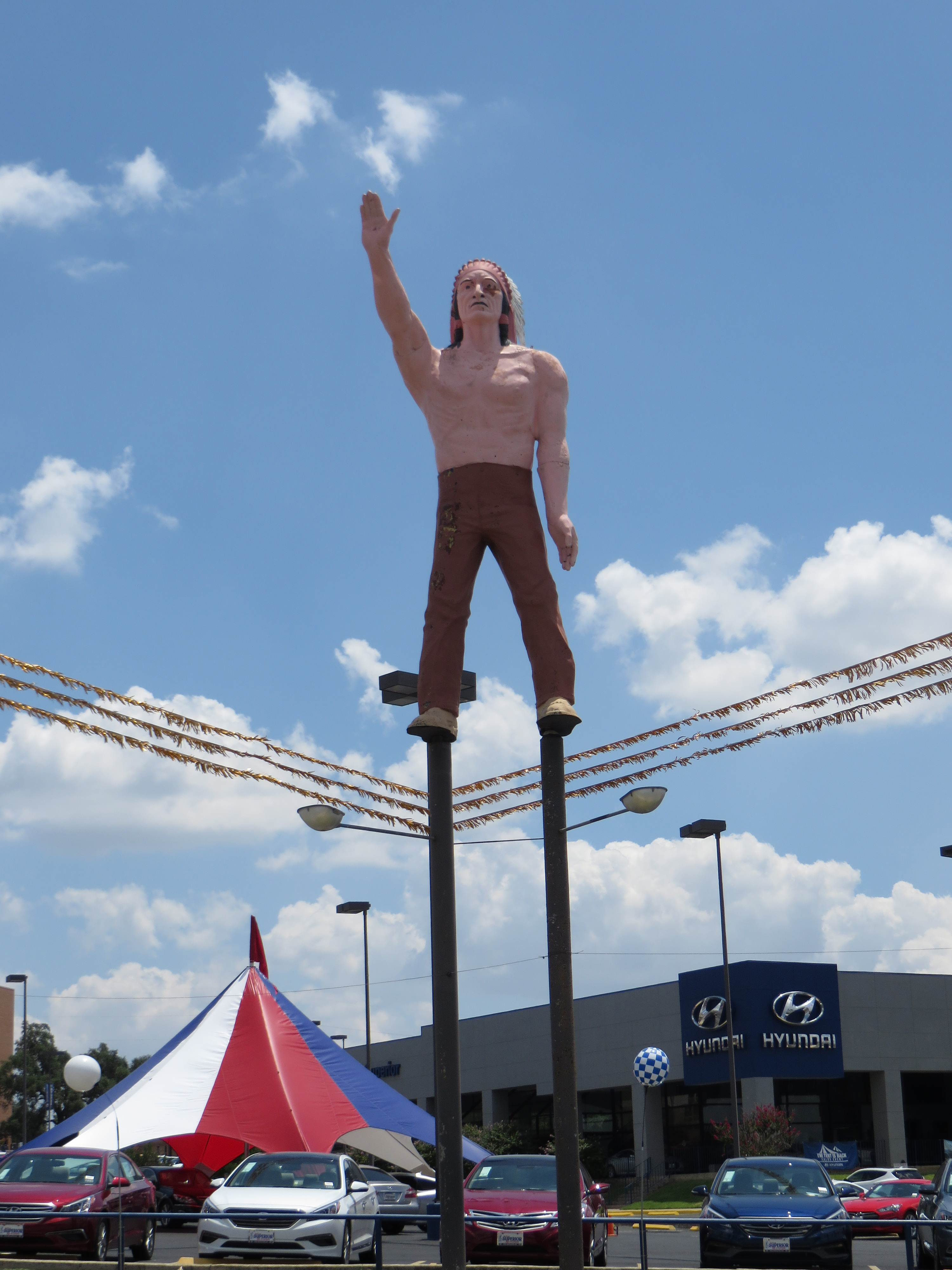 Muffler Man located at Red McCombs Superior Hyundai, 4800 Northwest Loop 410, San Antonio, Texas.